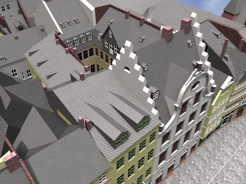 Frankfurt on the Main: View of the roof scape and the backyards at house Lichtenstein at the Roemerberg